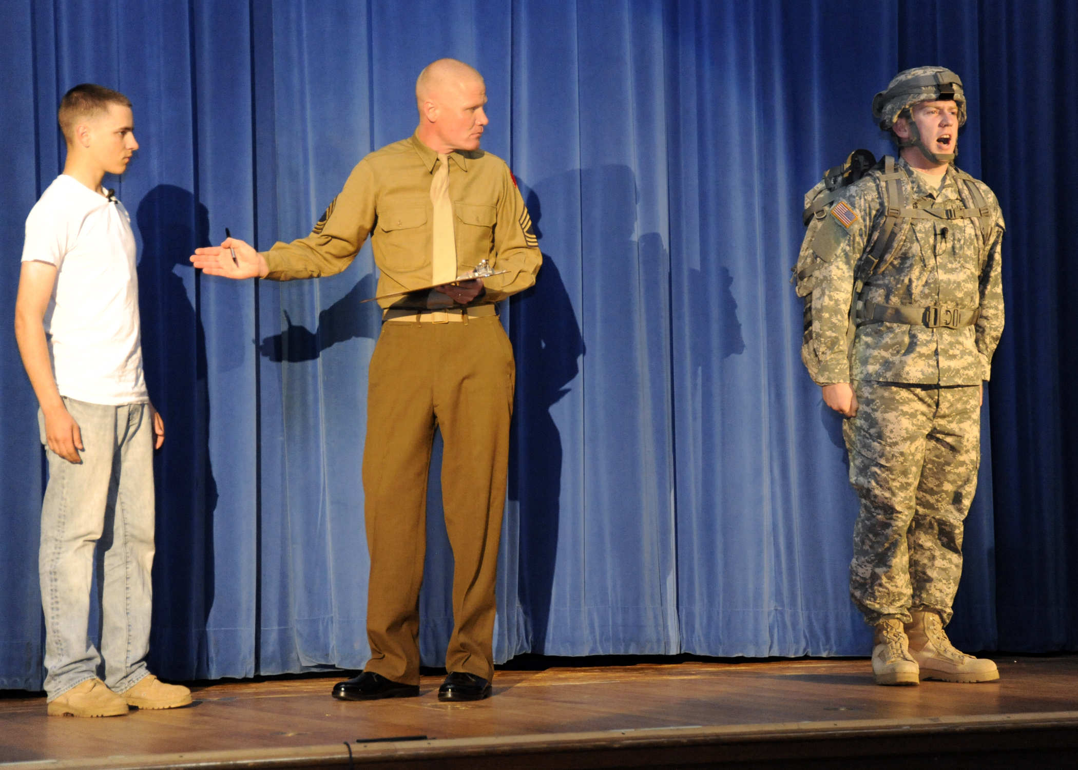 U.S. Soldiers perform an reenactment of Audie Murphy military biography, on stage, during an induction ceremony, at Sergeant Audie Murphy Club, at Fort Gordon, Ga., Dec. 12, 2009.